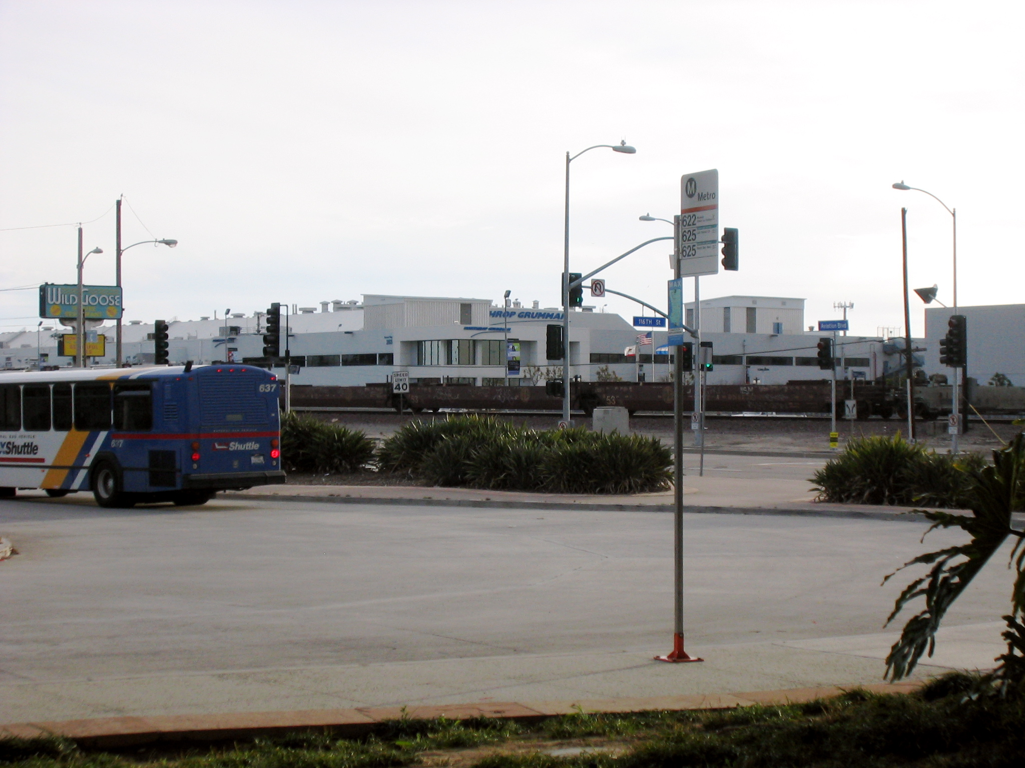 After landing at LAX we got a bus to Aviation, a station on the Metro Green Line. Across the street from the station is Northrop Grumman who are known for the F-14 Tomcat.